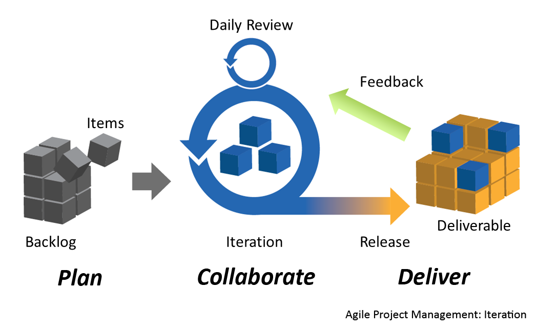 In agile project management, iterations are cycles by which teams plan, collaborate and deliver business functionalities, products, etc. This technique is often applied in methodologies like scrum, with or without the help of agile project management tools.